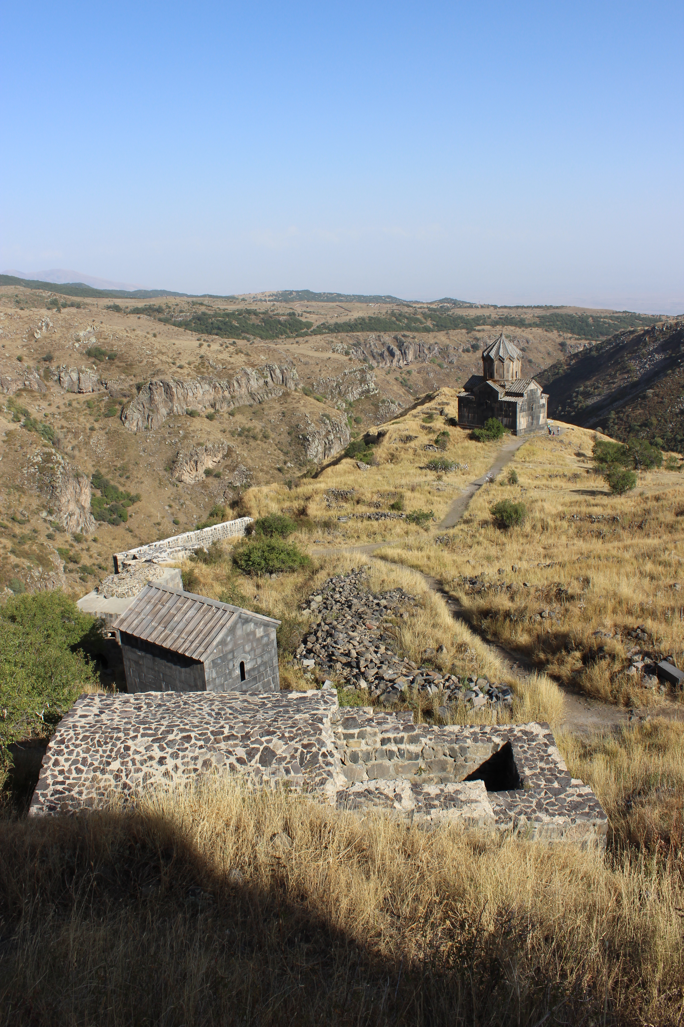 Structures along the promontory and within Amberd Fortress. Vahramashen Church (c. 1026) may be seen in the background.